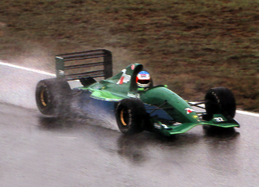 Michael Schumacher testing the Jordan 191, painted after several old shots